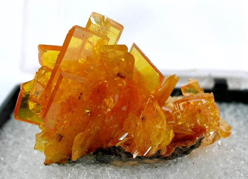 Wulfenite Locality: San Francisco Mine (Cerro Prieto Mine), Cerro Prieto, Cucurpe, Municipio de Cucurpe, Sonora, Mexico (Locality at ) Size: 3.5 x 2.6 x 2.2 cm. This is a rare matrix cluster of exquisite, gemmy, orange wulfenite crystals to 1.3 cm across. Minor association with red-orange mimetite adds contrast. Ex. Harold Urish Collection.